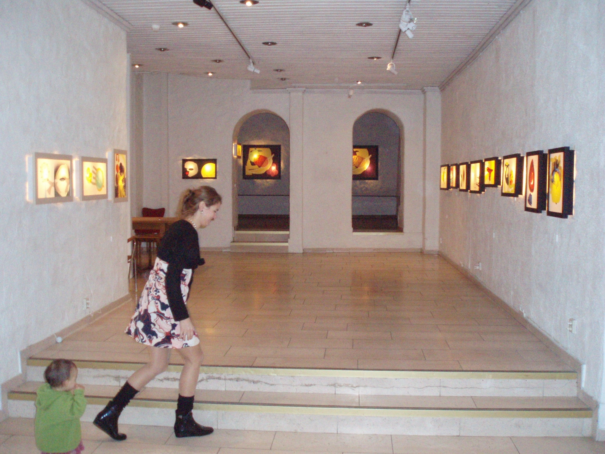 Photo from exhib in Galleri Gathe 2007